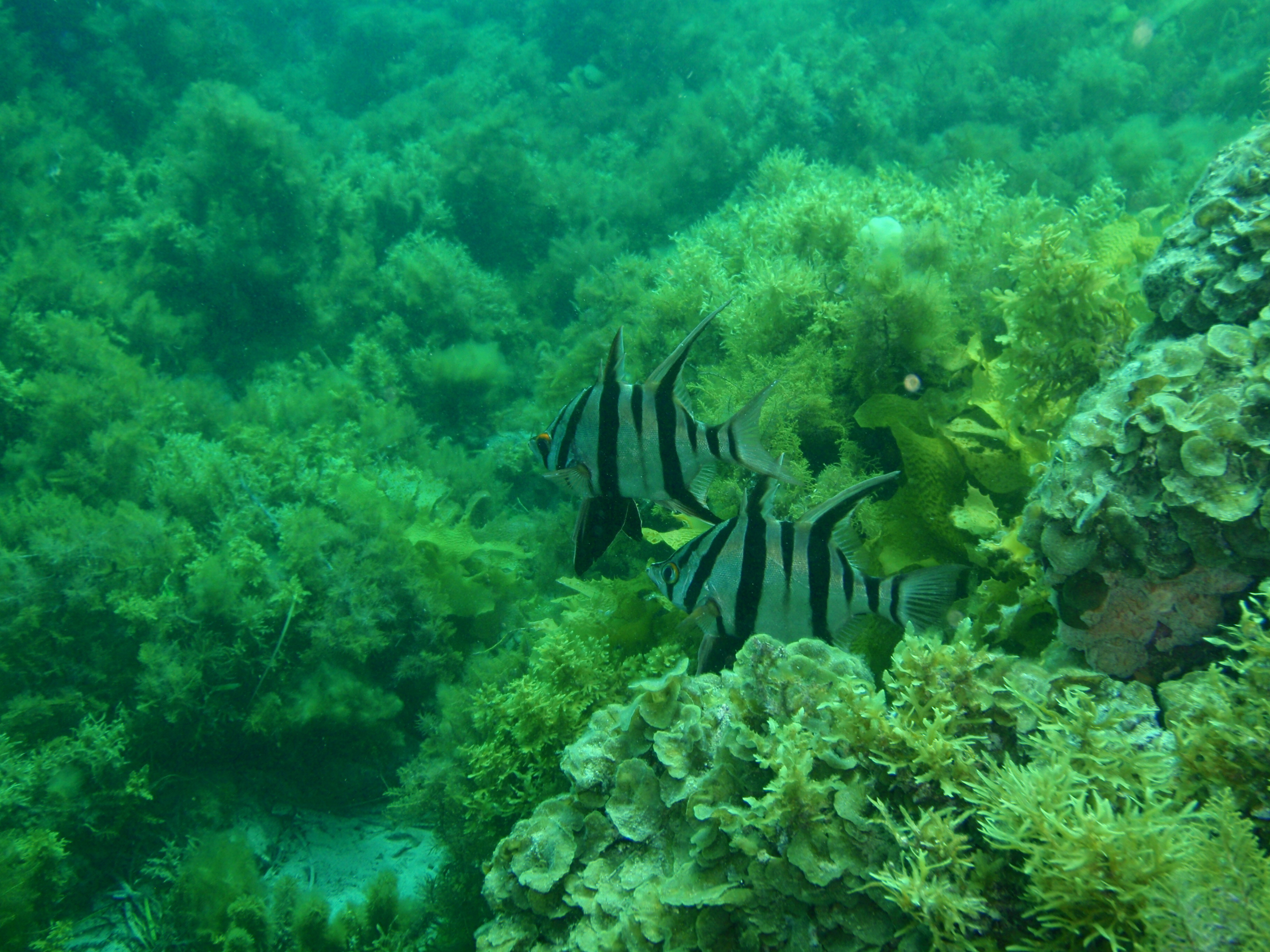 Old wife Enoplosus armatus at the point at Second Valley, South Australia